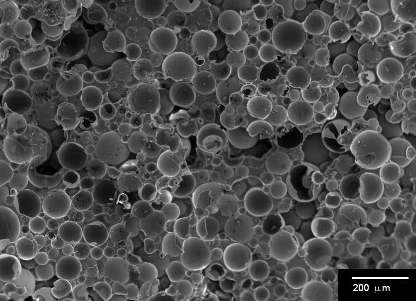 Scanning electron micrograph of syntactic foam, which contains glass microballoons in epoxy matrix.